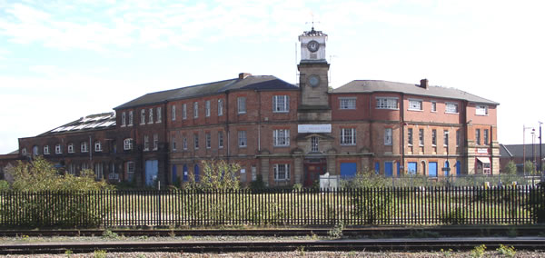 North Midland (later Midland) Railway Workshop, Derby